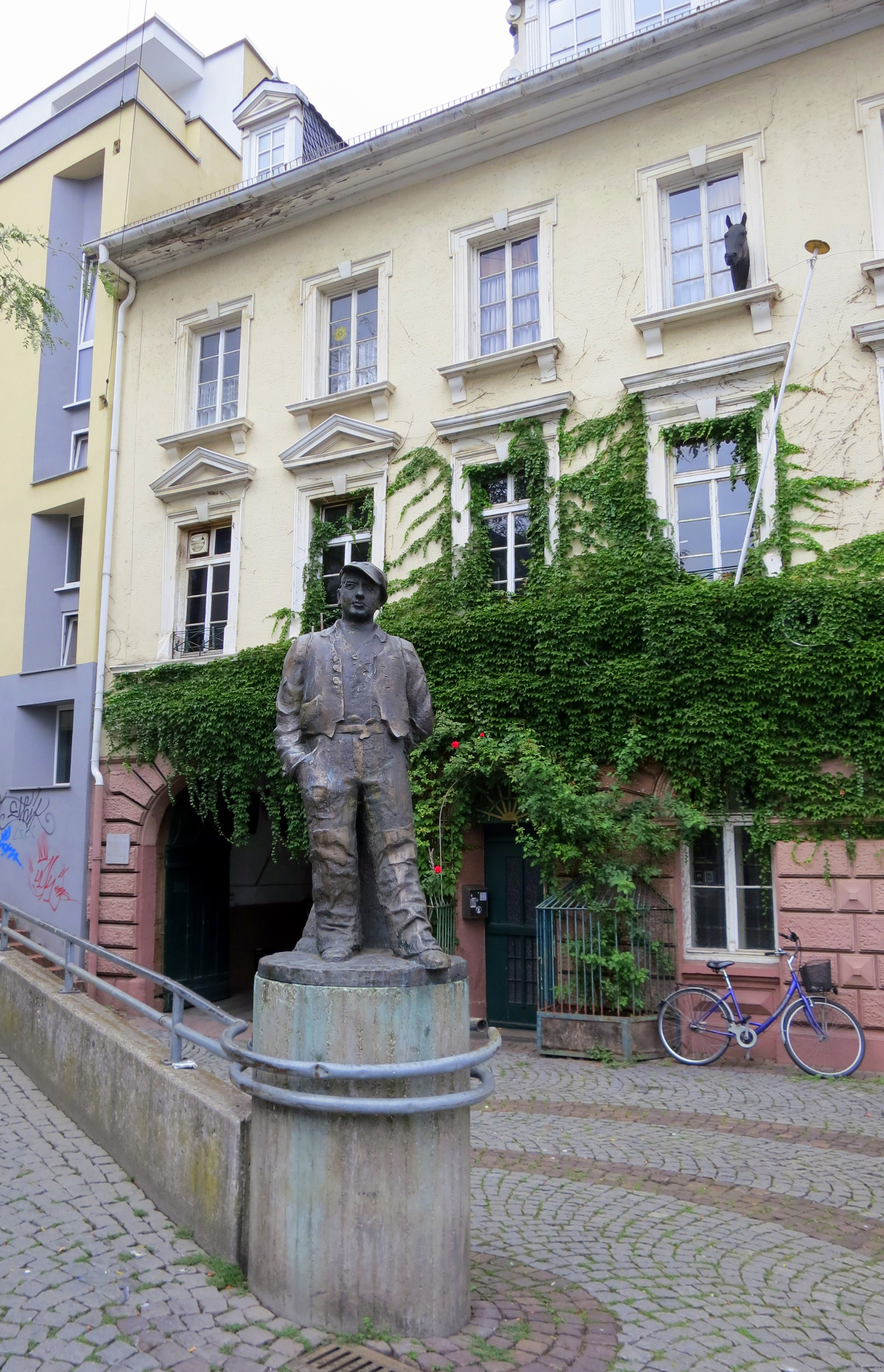 The Heinerstaue before the Goldenen Krone (Golden Crown) (2015)